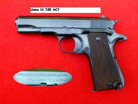 Pistolet Llama III. Source borland